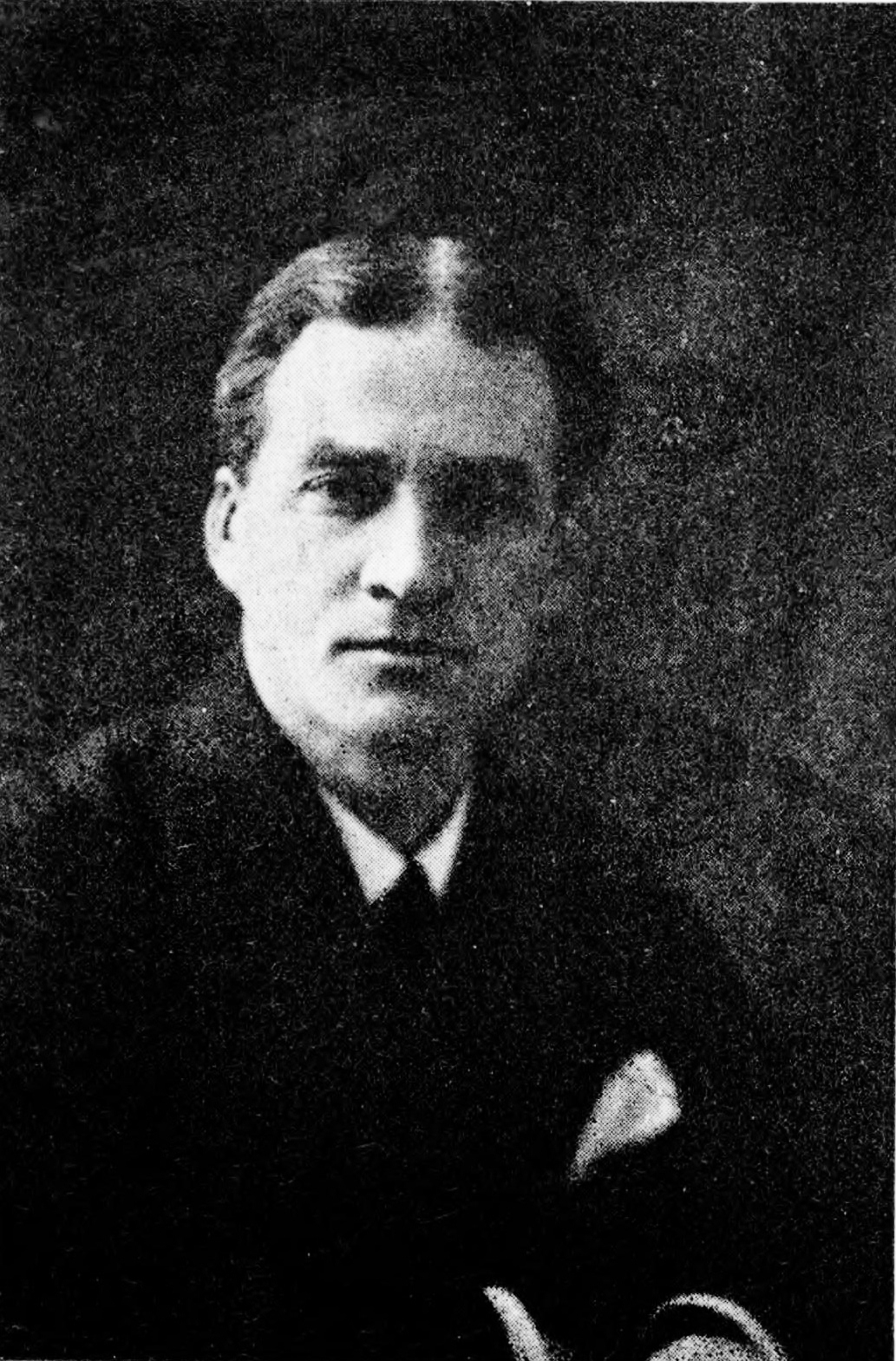 Nikolai Kolin, leading actor from the Moscow Art Theatre